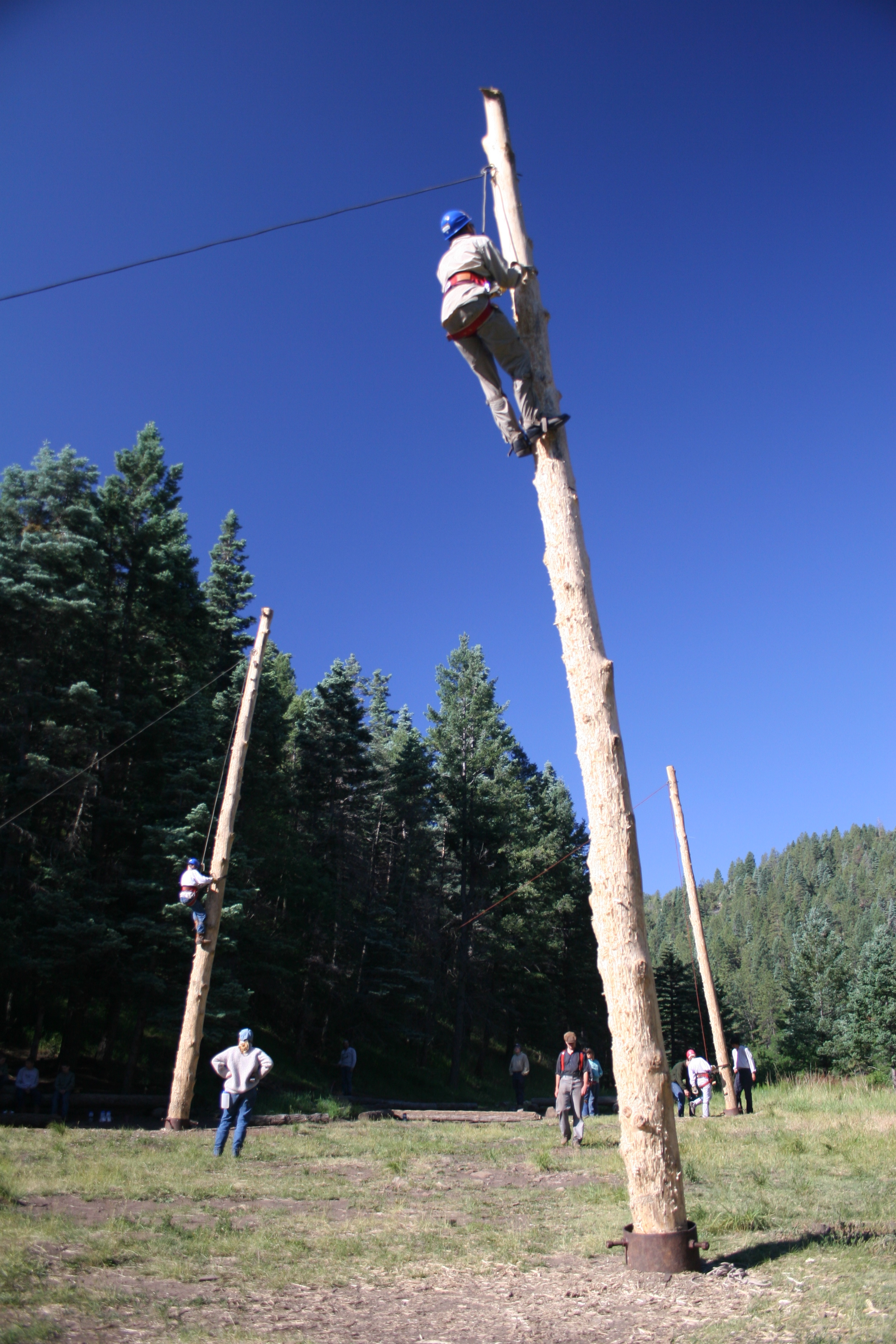 Scouts climb spar-poles at Pueblano at Philmont Scout Ranch.